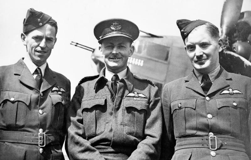 Left to right : Squadron Leader Leonard Henry Trent, later awarded the Victoria Cross; Wing Commander G J "Chopper" Grindell, Commanding Officer of No. 487 Squadron RNZAF; Squadron Leader T Turnbull.